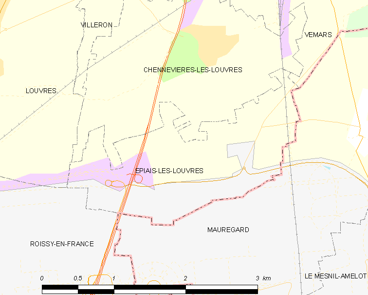 Map of French municipality Épiais-lès-Louvres